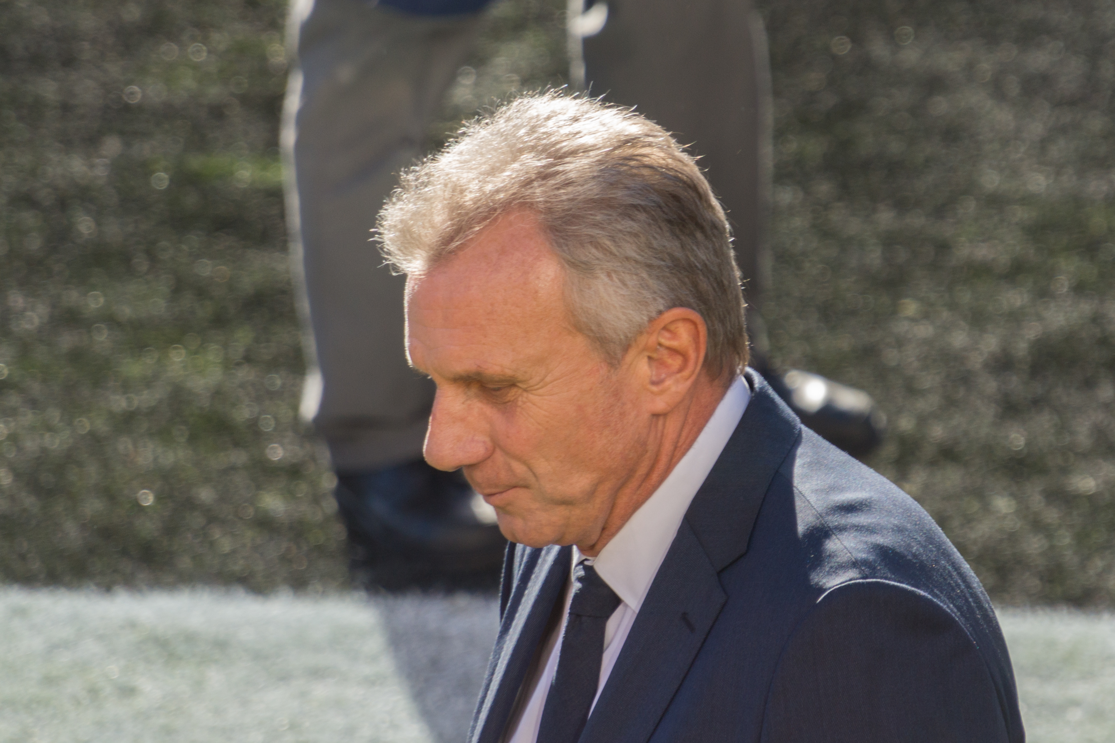 Super Bowl 50